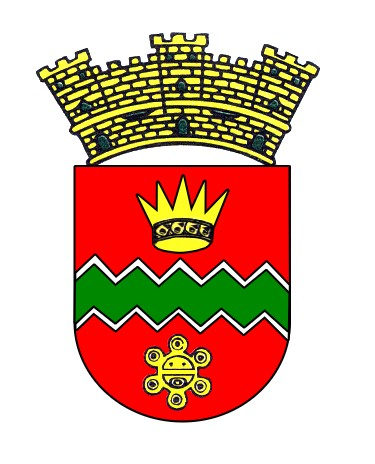 Seal of the municipality of Jayuya, Puerto Rico